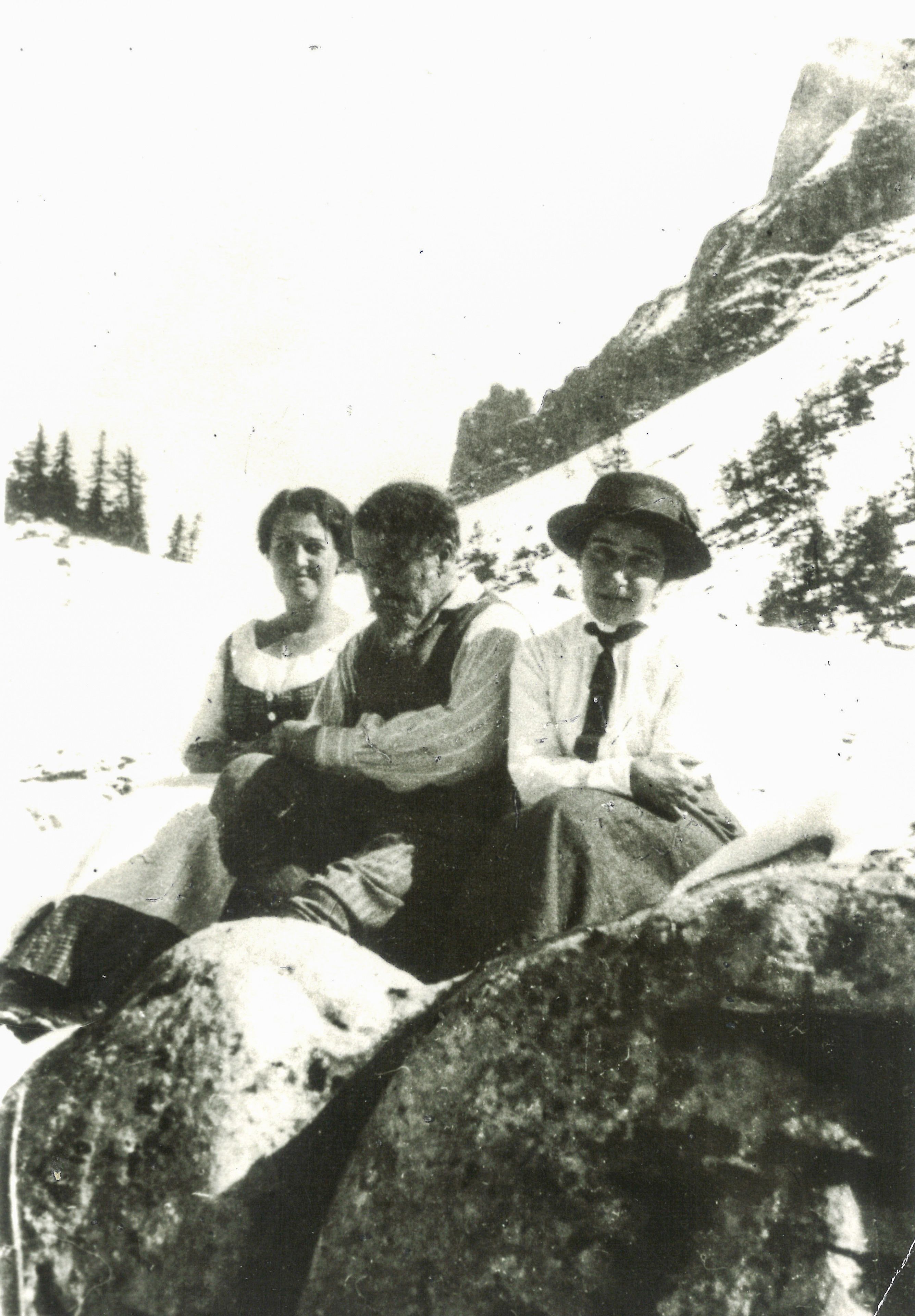 Christine Kerry (left) with Arthur Schnitzler at the Gschwandtalm in Altaussee